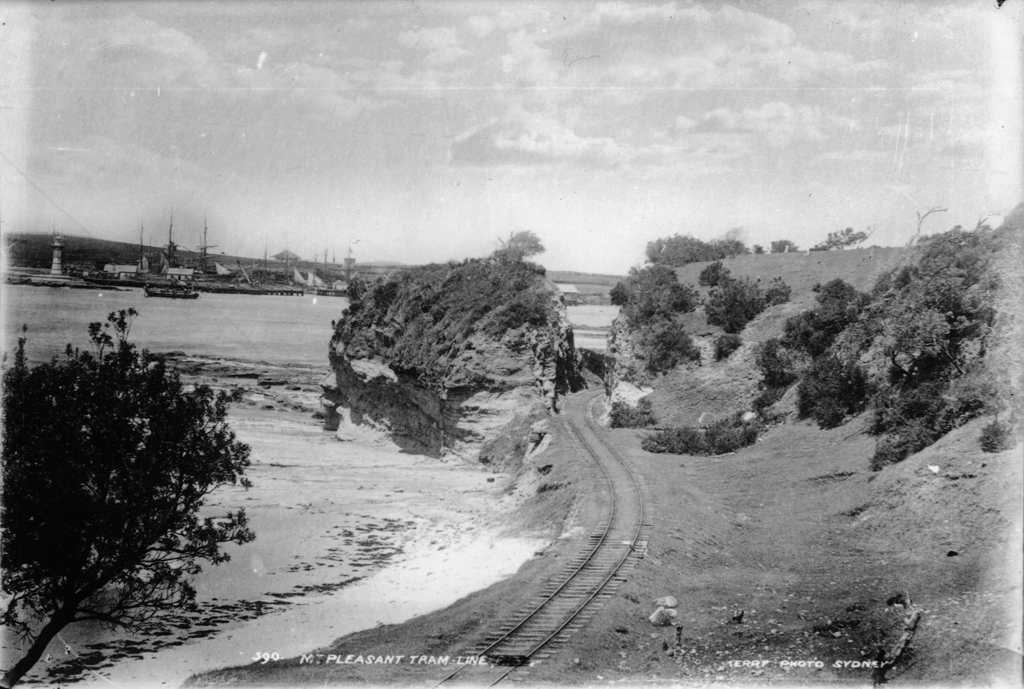 Format: Glass plate negative. Repository: Tyrrell Photographic Collection, Powerhouse Museum Part Of: Powerhouse Museum Collection General information about the Powerhouse Museum Collection is available at Persistent URL: Acquisition credit line: Gift of Australian Consolidated Press under the Taxation Incentives for the Arts Scheme, 1985